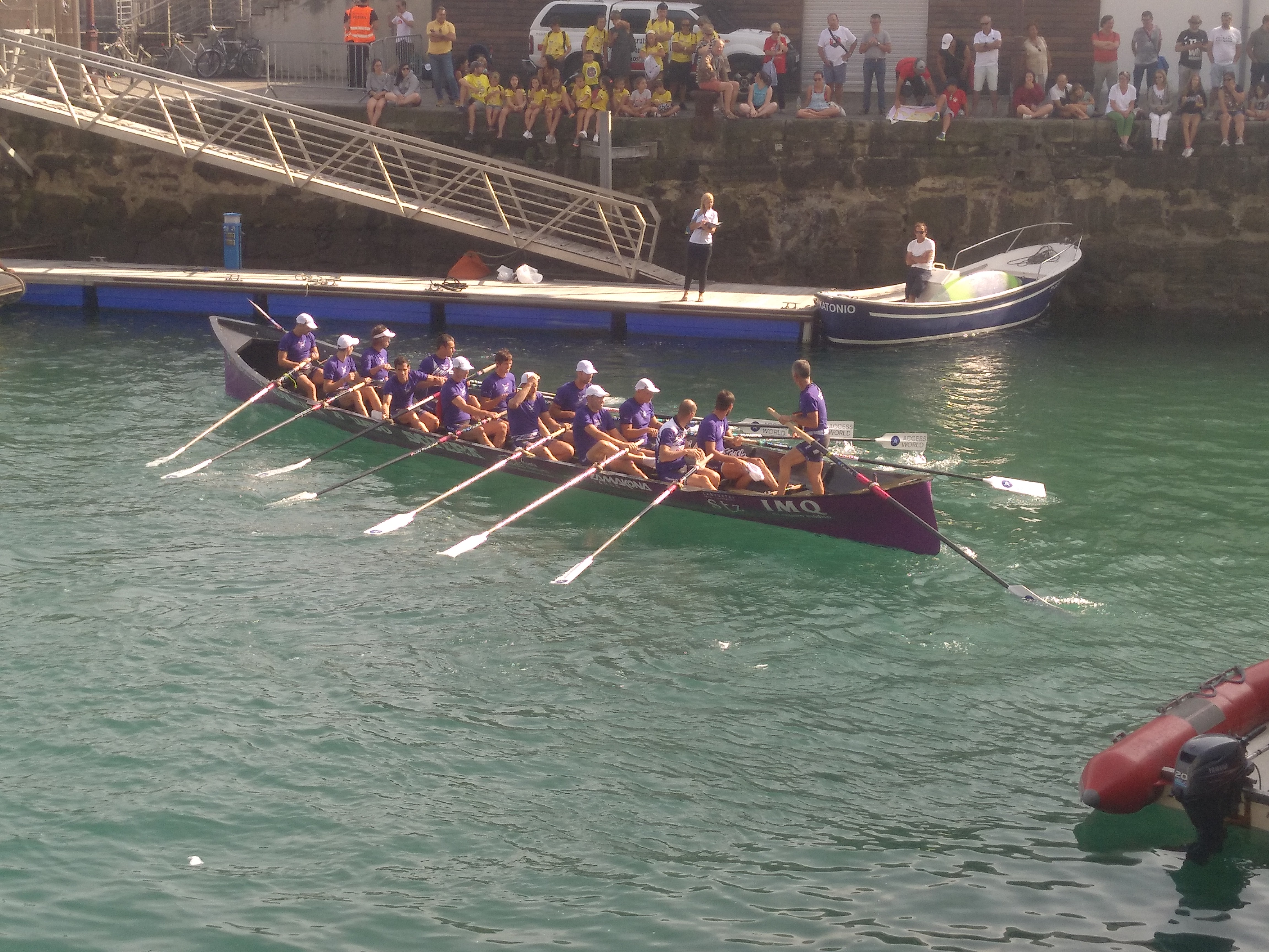 Itsasoko Ama Arraun Elkartea, Flag of La Concha, 2018